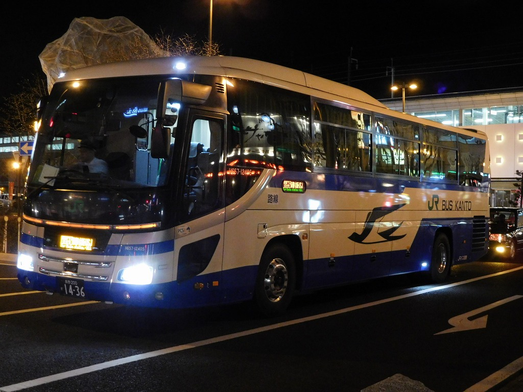 JR bus Kanto Hino S'elega HD (LKG-RU1ESBA)on highwaybus "Youth dream Shinsyu"(Saku,Ueda,Nagano-Kyoto,Osaka,USJ)